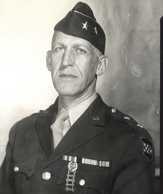 Maj. General Walter E. Lauer, commanding officer of the 99th Infantry Division, at Camp Maxey, Texas in 1944.